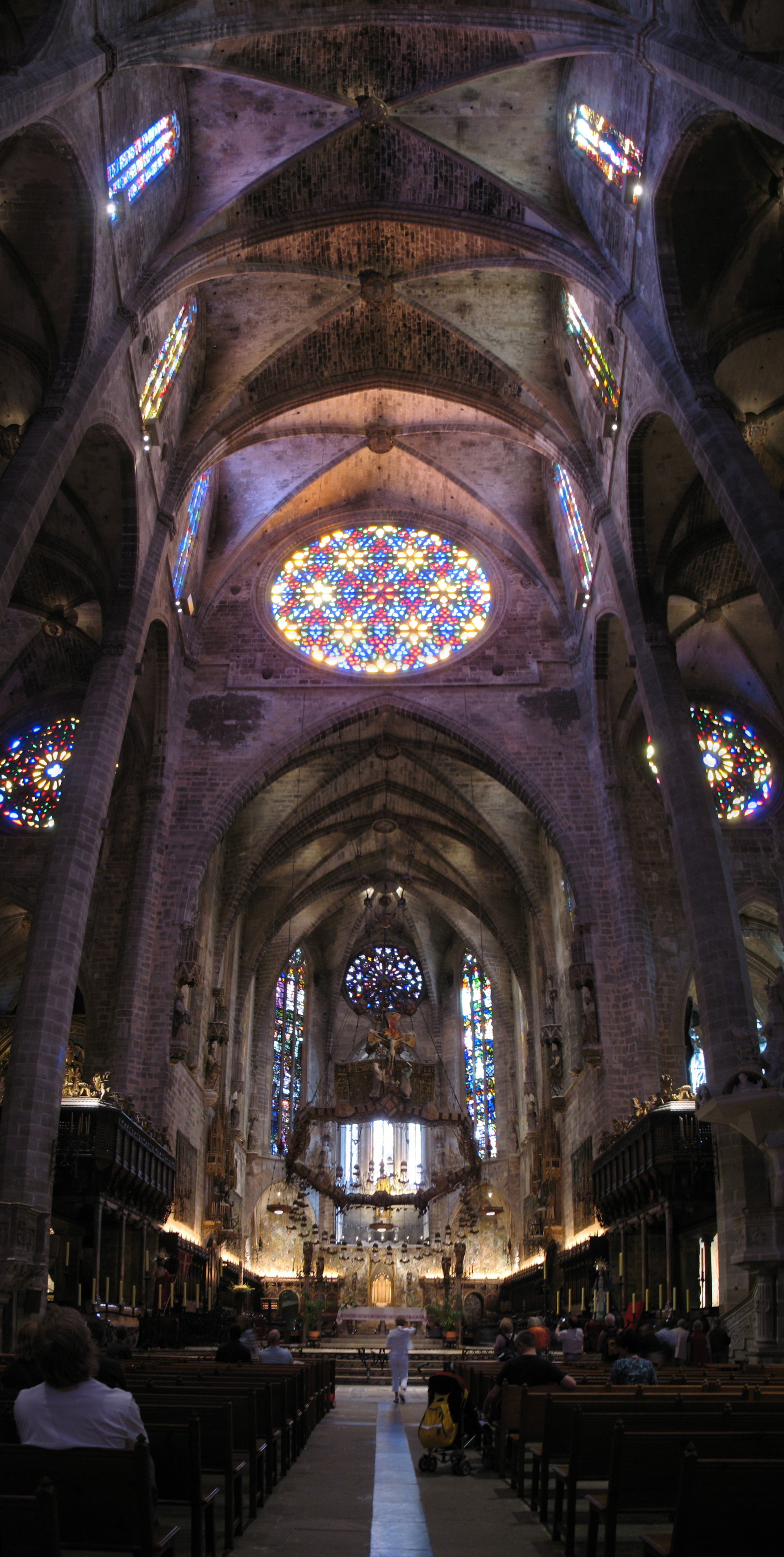 La Seu, the cathedral in Palma de Mallorca. Internal panoramic image. Stitched together from five images.